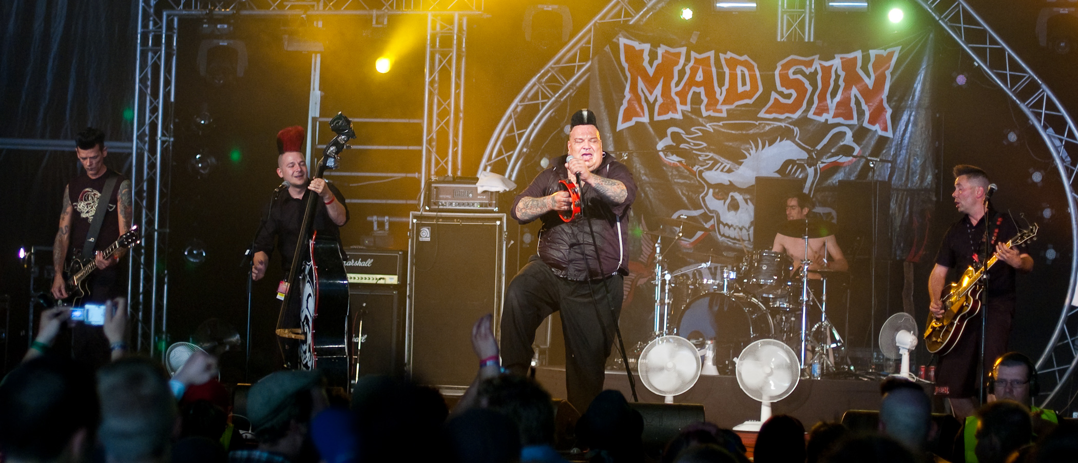 The German psychobilly band Mad Sin performing at the Ilosaarirock festival on the 13th of July 2008 in Joensuu, Finland.